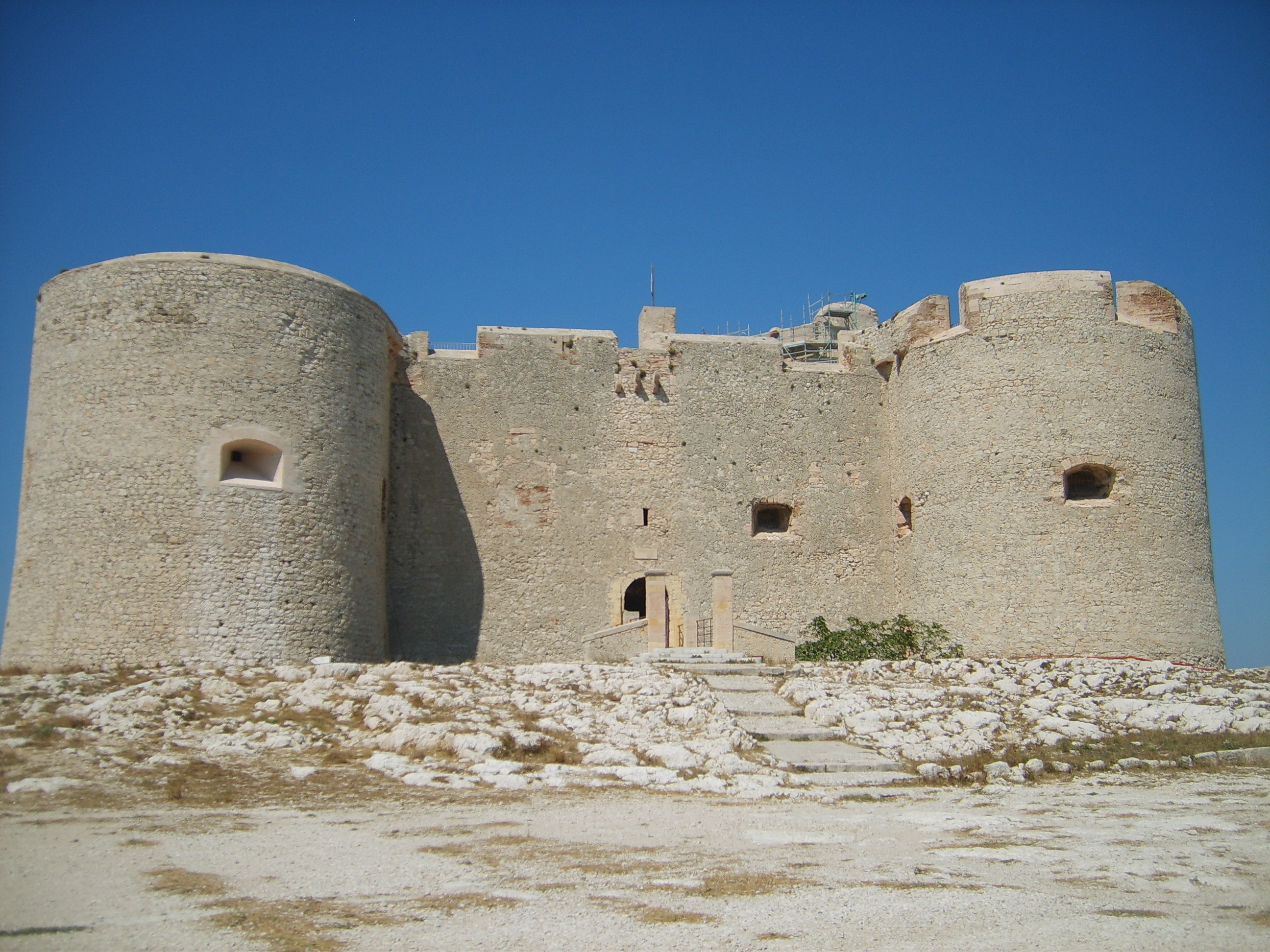 This is a facial pic of If castle 吴语: 依夫城堡正面照片